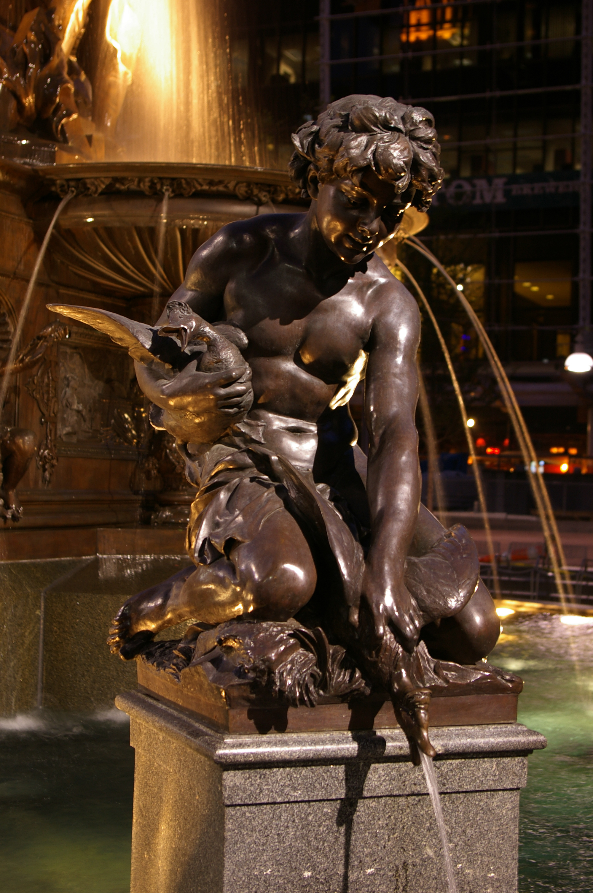 I, Joy Schoenberger, took this closeup photo of the Tyler Davidson Fountain in Fountain Square, Cincinnati on Friday, June 8, 2007 with a Pentax K100D Digital SLR camera.